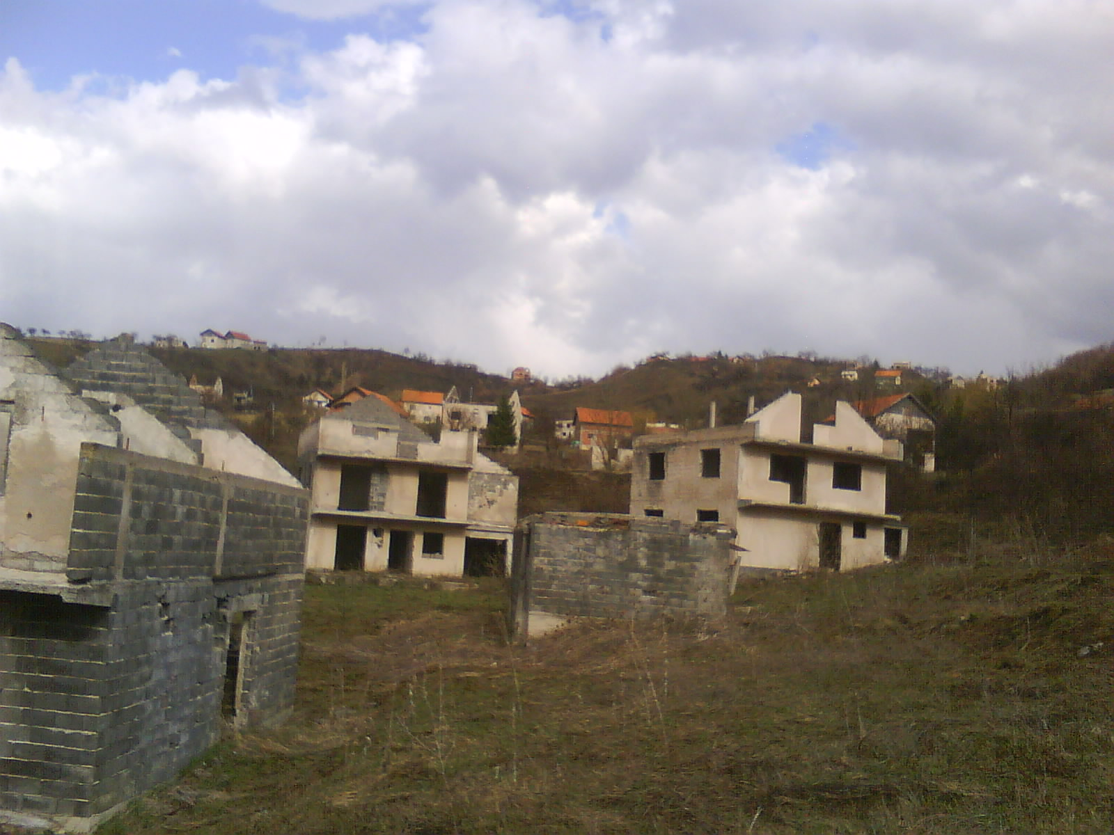 Village Grahovčići, municipality of Travnik